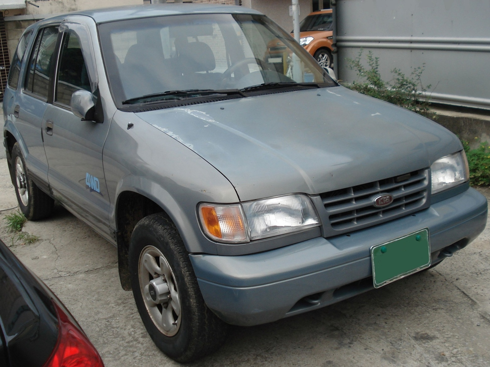 Kia Sportage